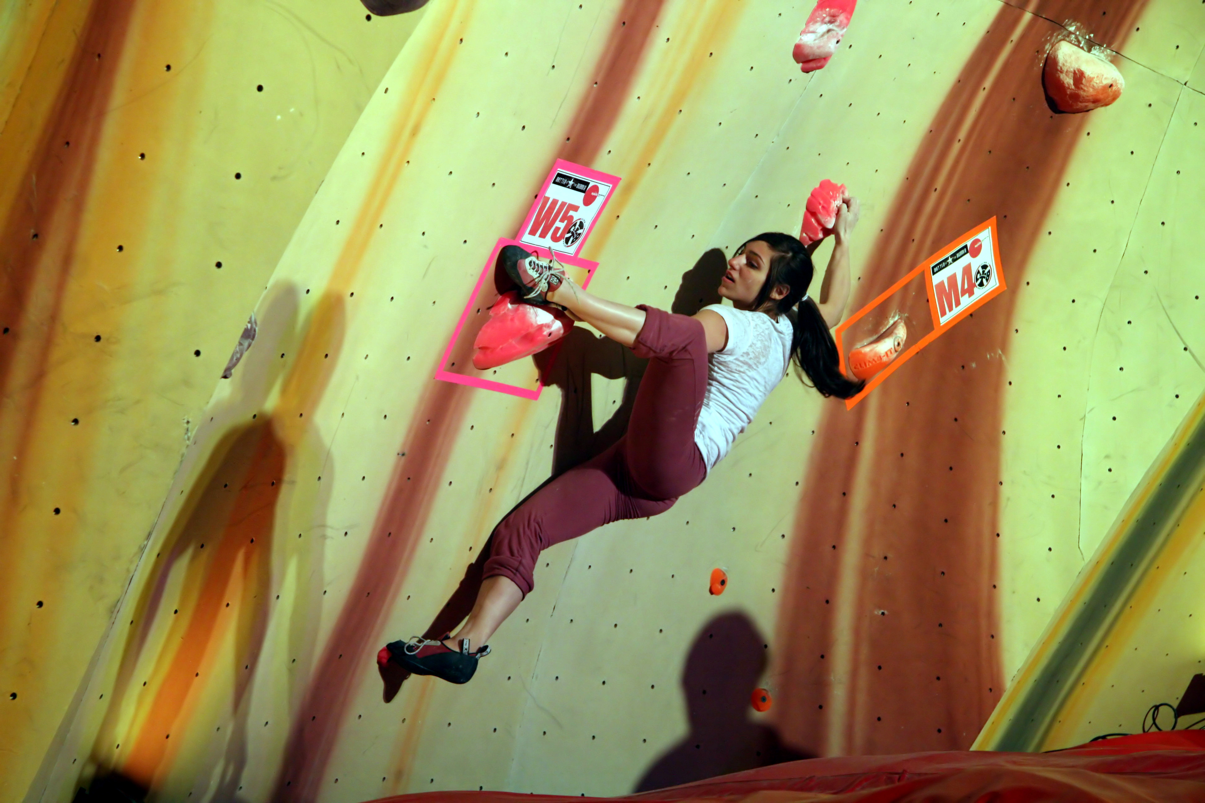 I went to a climbing competition here in Boulder after I heard that my parkour instructors would be giving a few shows there to promote their gyms. Though I just went to see my instructors perform, the competition was surprisingly entertaining. It's amazing seeing some of the very best climbers in the country doing some of the most difficult routes I'm ever likely to see.